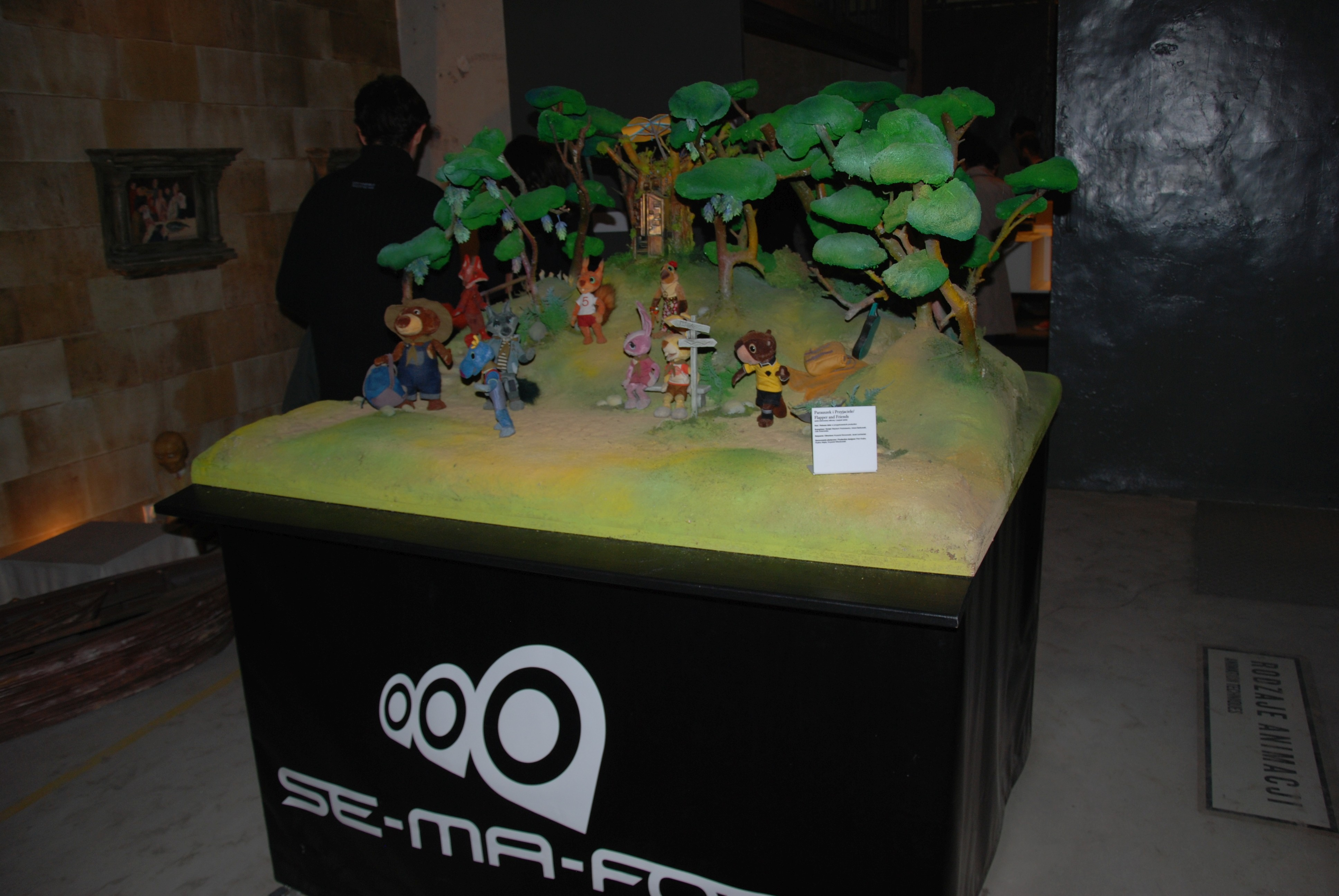 Long Night of Museums in Łódź 2014 Se-ma-for – Museum of Animation